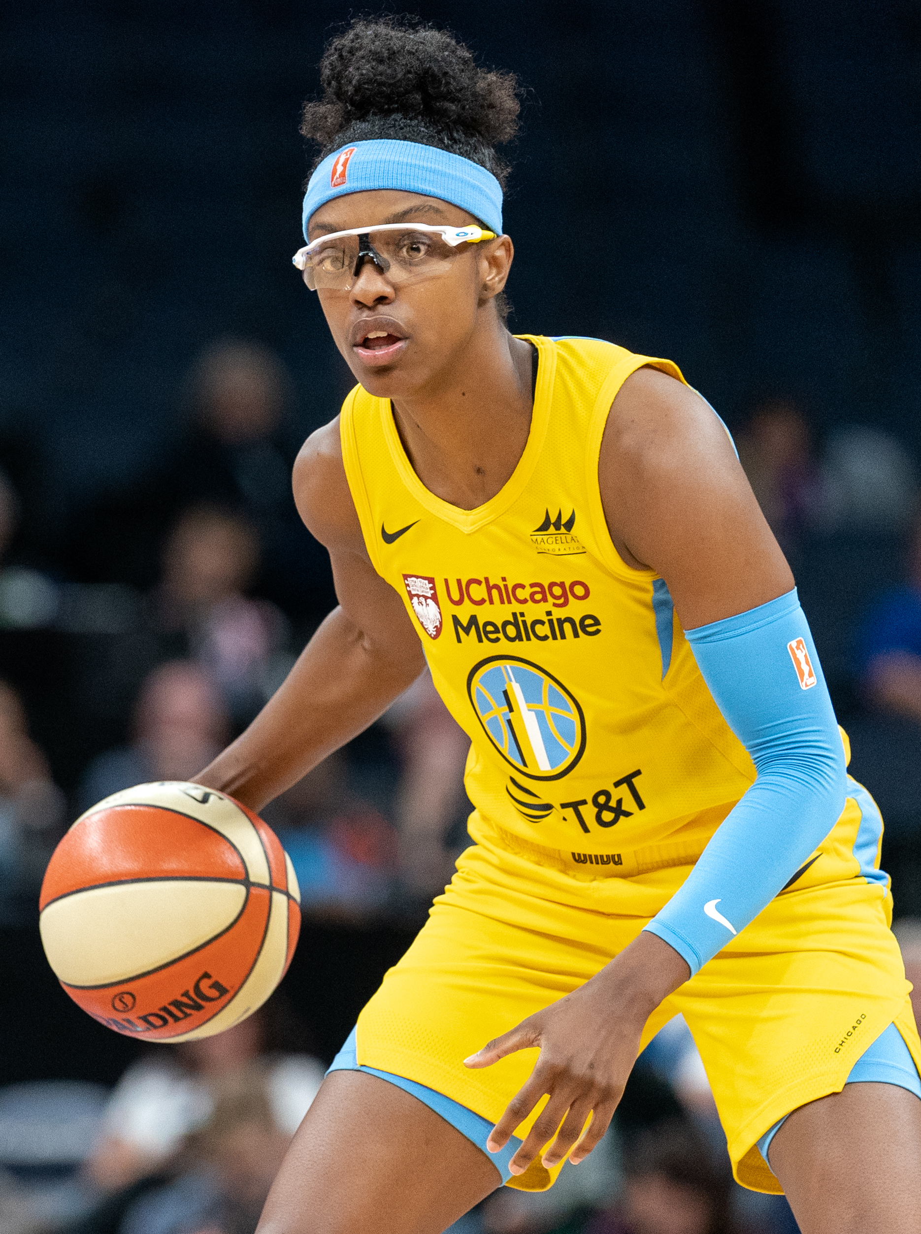 Chicago Sky player Diamond DeShields in a game against the Minnesota Lynx